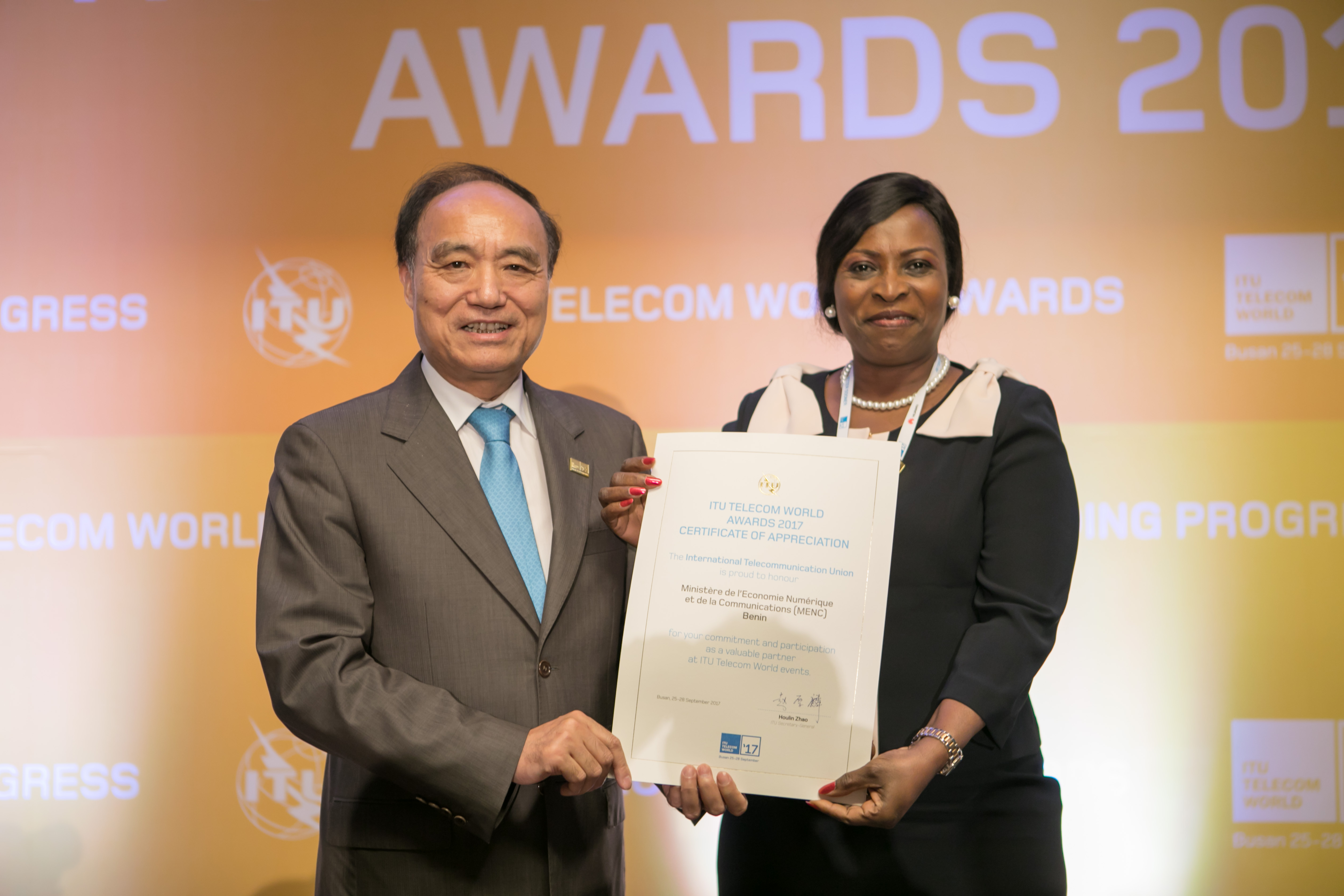 From left to right, Houlin Zhao, Secretary General, International Telecommunication Union, Switzerland; Mrs Rafiatou MONROU, Minister, Ministere de l'Economie Numerique et de la Communications, Benin ©ITU/R.Farrell